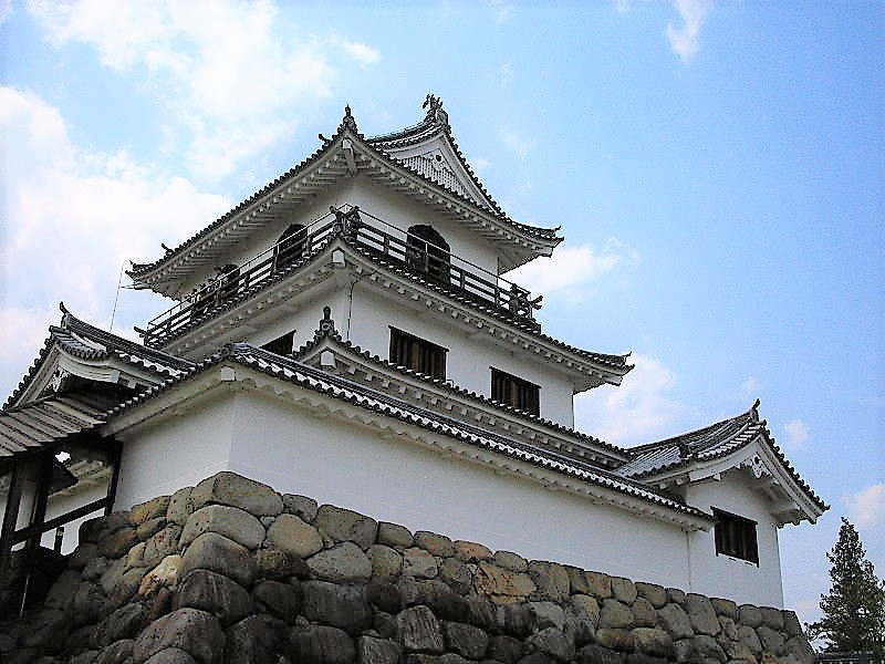 The rebuilt Three-storied tower of Shiroishi castle in Shiroishi, Miyagi, Japan.